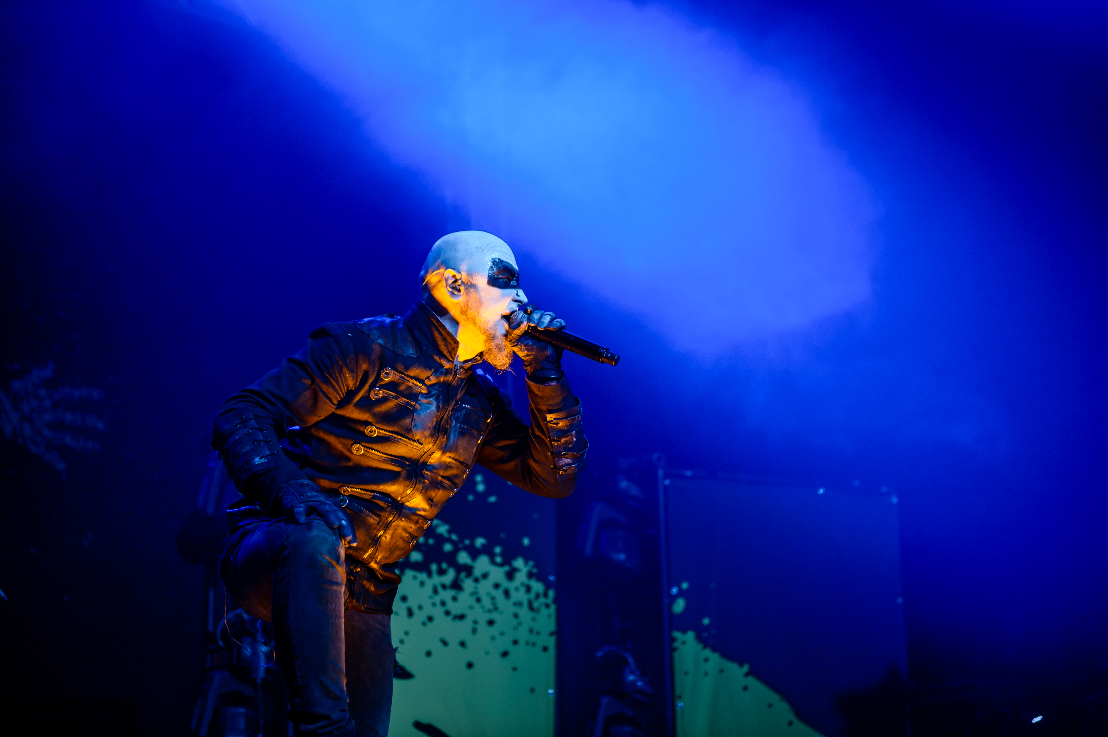 Hämatom; Wacken Open Air 2016